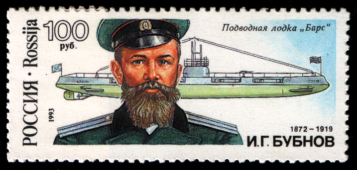 Stamp of Russia, Ivan Bubnov, 1993, 100 r.